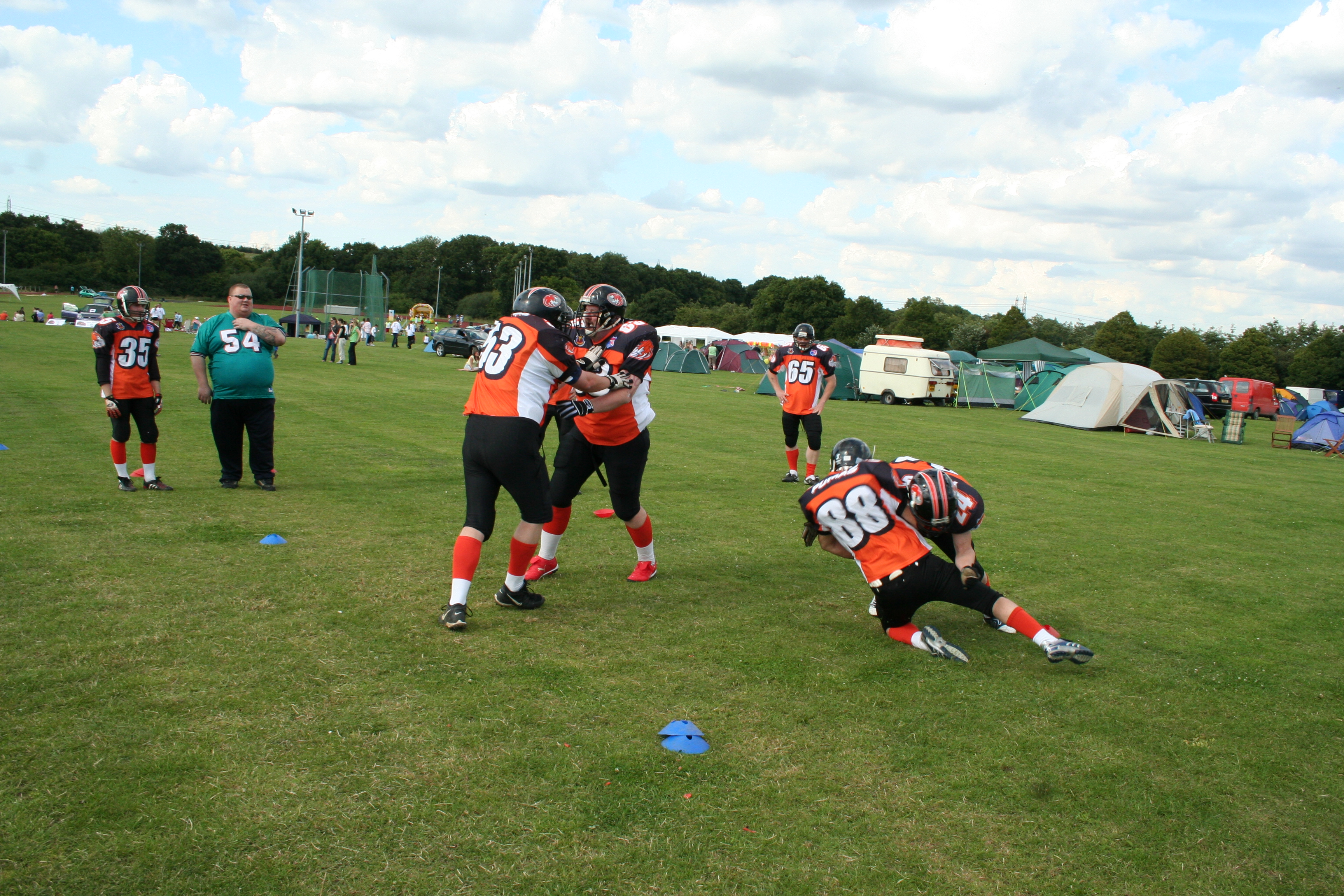 A four man tackling drill during an American Football demonstration by the Maidstone Pumas AFC at the Breast Cancer Research Relay For Life Event in Hoo, Kent, UK on 7th July 2007.